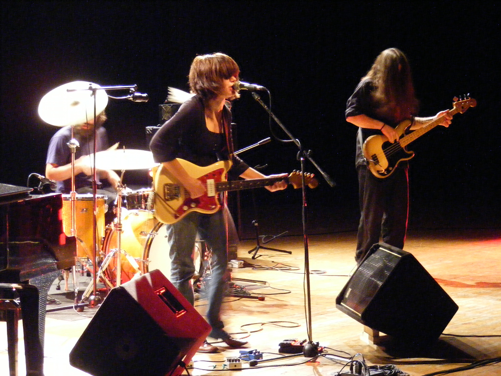 Shannon Wright live at Teatro Studio, Scandicci (Florence)